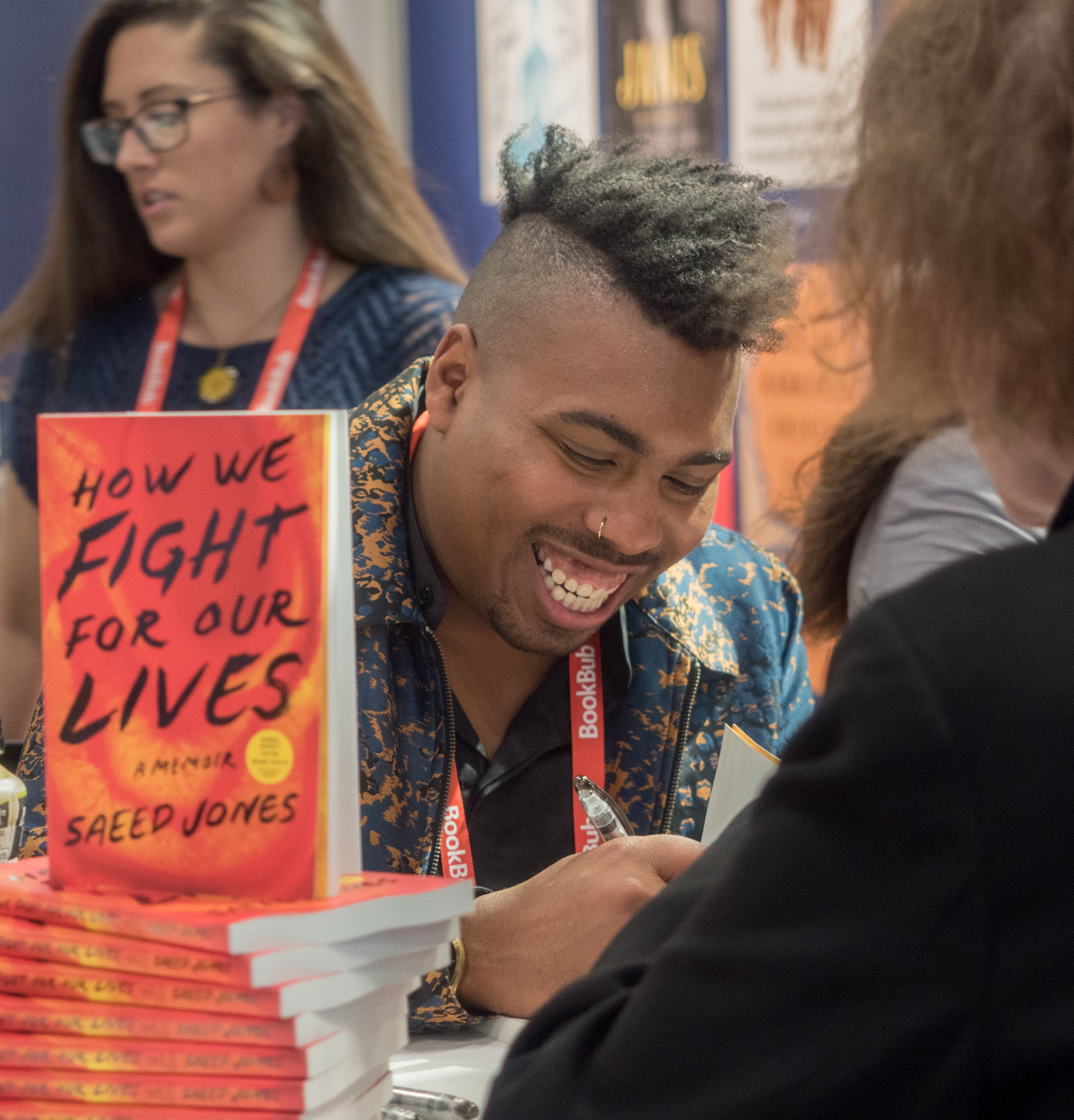 Saeed Jones at BookExpo at the Javits Center in New York City, May 2019.